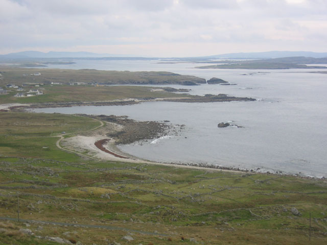 Bloody Foreland. A view across Altawinny Bay, looking roughly south.